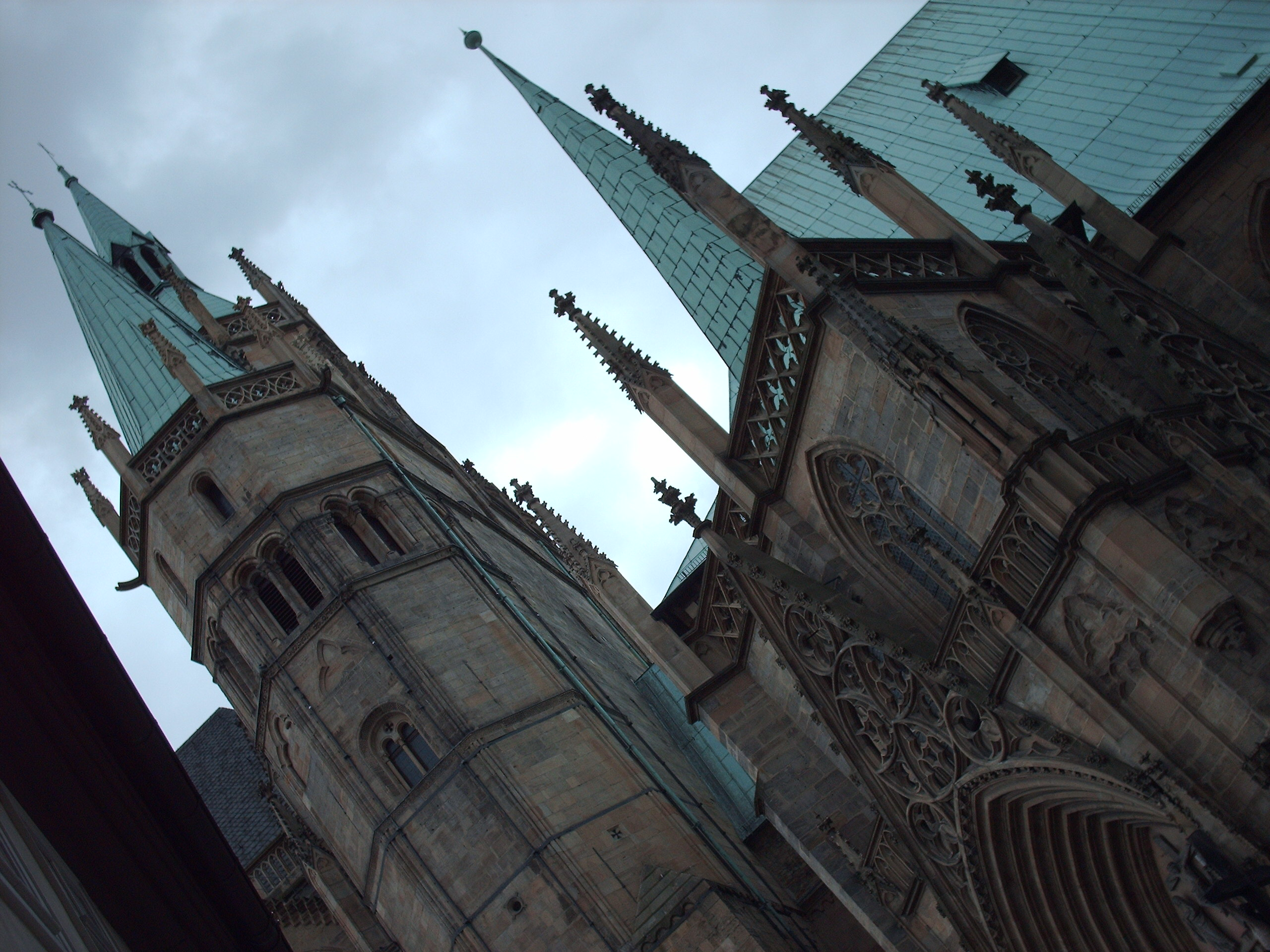 Erfurt, Cathedral's gothic spires